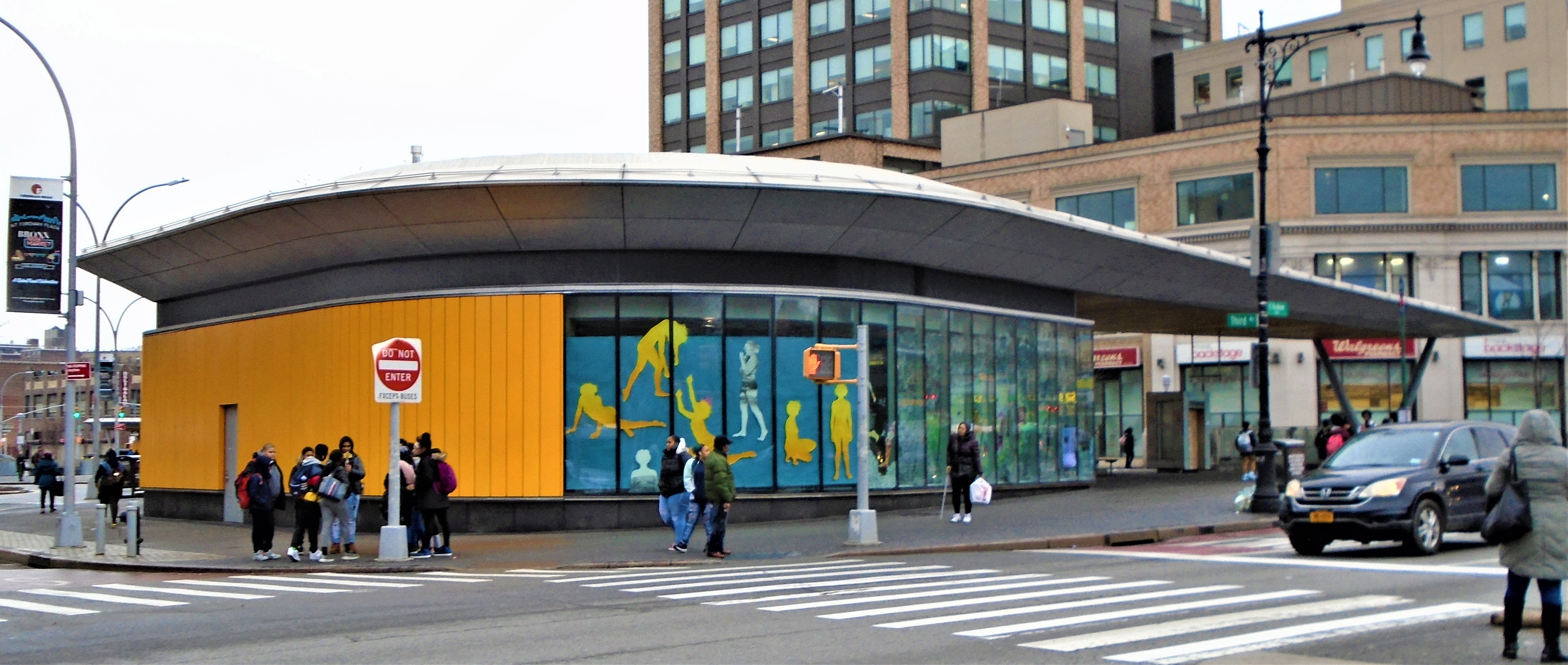 The Fordham Metro-North stationm also known as Fordham–East 190th Street station, is a commuter rail stop on the Metro-North Railroad's Harlem and New Haven Lines, serving Fordham Plaza in the Fordham neighborhood of the Bronx, New York City. The platforms are situated just below street level, while the station building sits above the tracks on the Fordham Road (East 190th Street) overpass. The station is among the busiest rail stations in the Bronx.